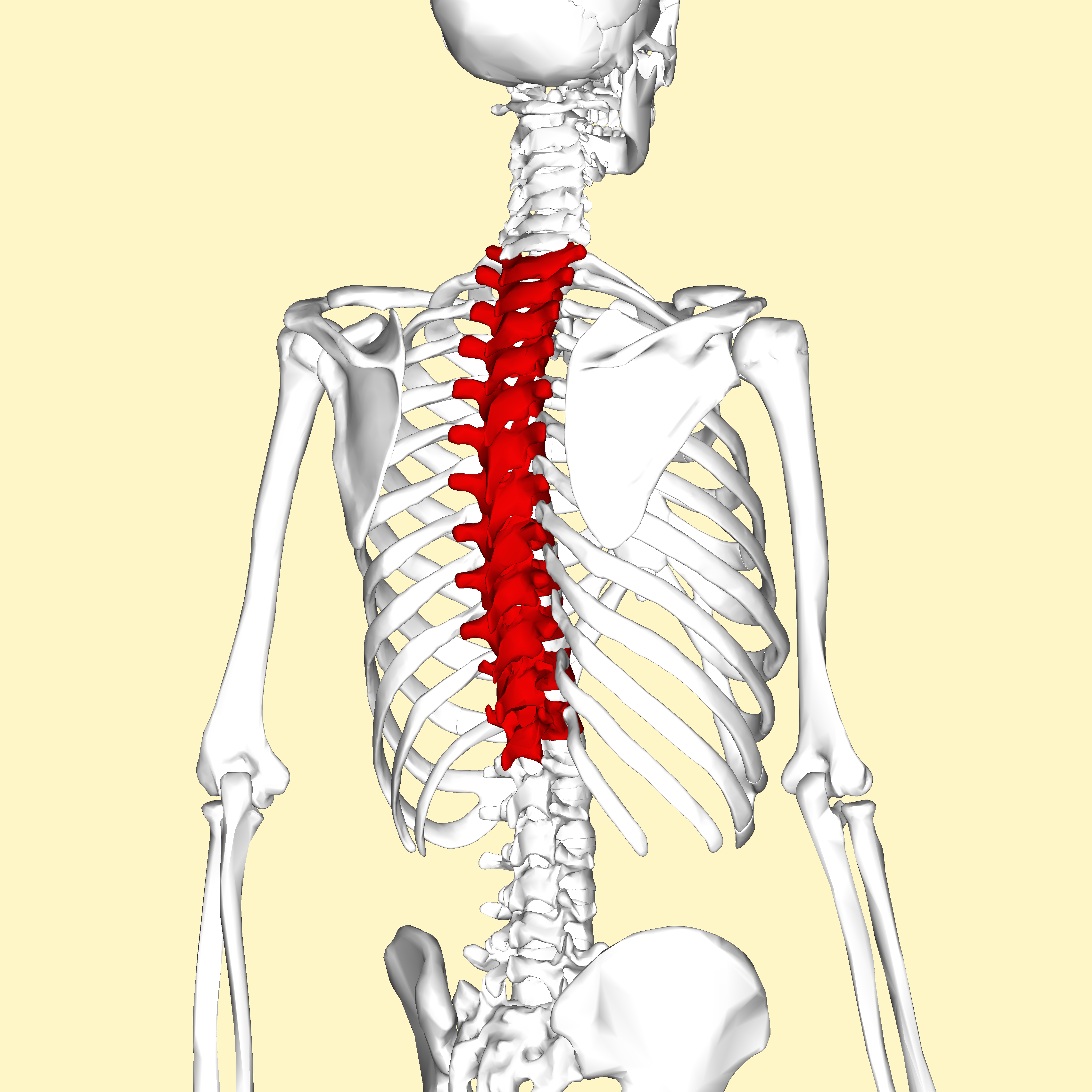 Thoracic vertebrae (shown in red).